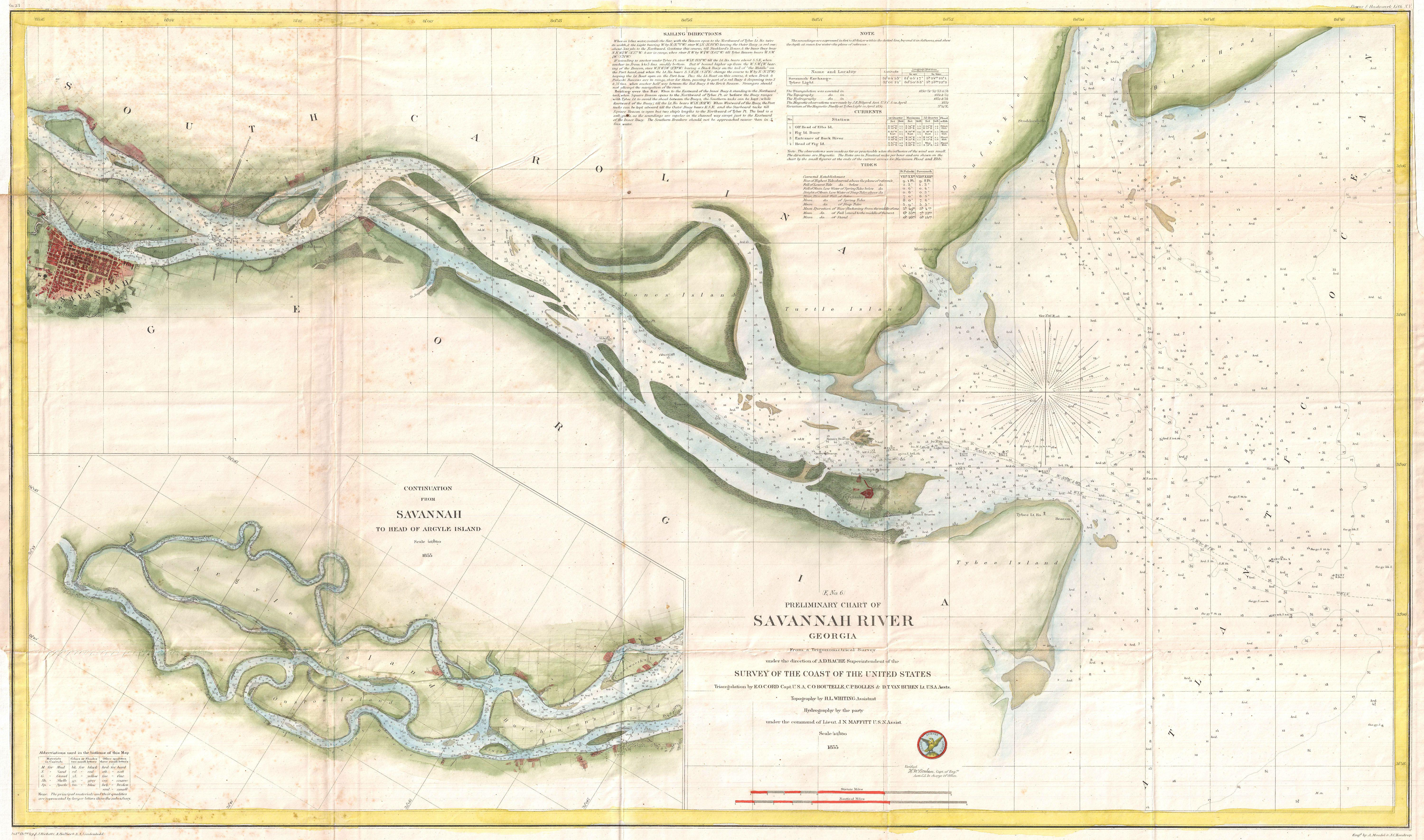 This is a very attractive example of the 1855 U.S. Coast Survey nautical chart or map of the Savannah River, Georgia. Centered on Jones Island, this map extends from the river’s mouth at Tybee and Turtle Islands inland as far as the city of Savannah, which is itself drawn in considerable detail. This chart notes Fort Pulaski at the mouth of the river as well as the Fort Jackson and the Union Causeway. The city of Savannah itself is beautifully rendered with its hallmark grid structure and even important buildings and parks clearly in evidence. The lower left quadrant features an inset that continues the map from Savannah westward to Argyle Island. The triangulation for this map was completed by E.O. Cord, C. O. Boutelle, C. P. Bolles and D. T. Van Buren. The topography is the work of H. I. Whiting. The Hydrography was accomplished by a party under the command of J. N. Maffitt. The entire chart was produced under the supervision of A. D. Bache, of the most prolific and influential Superintendents of the U.S. Coast Survey.